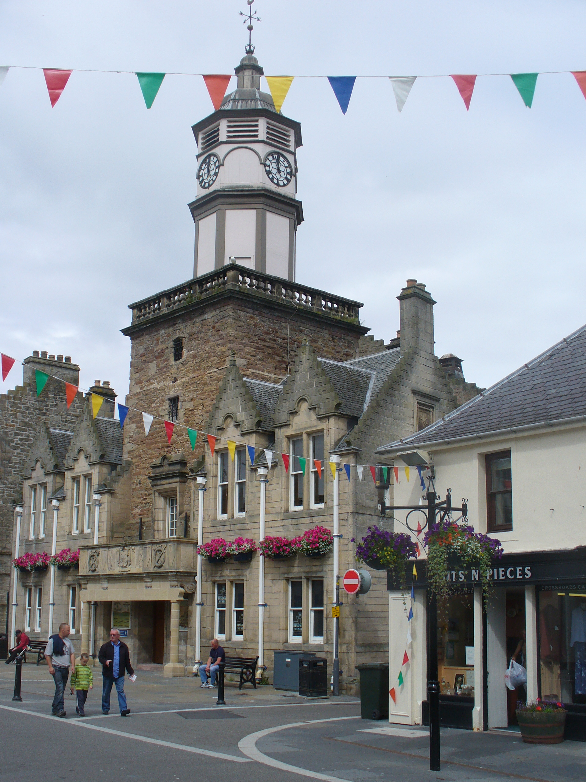 Dingwall Town Hall